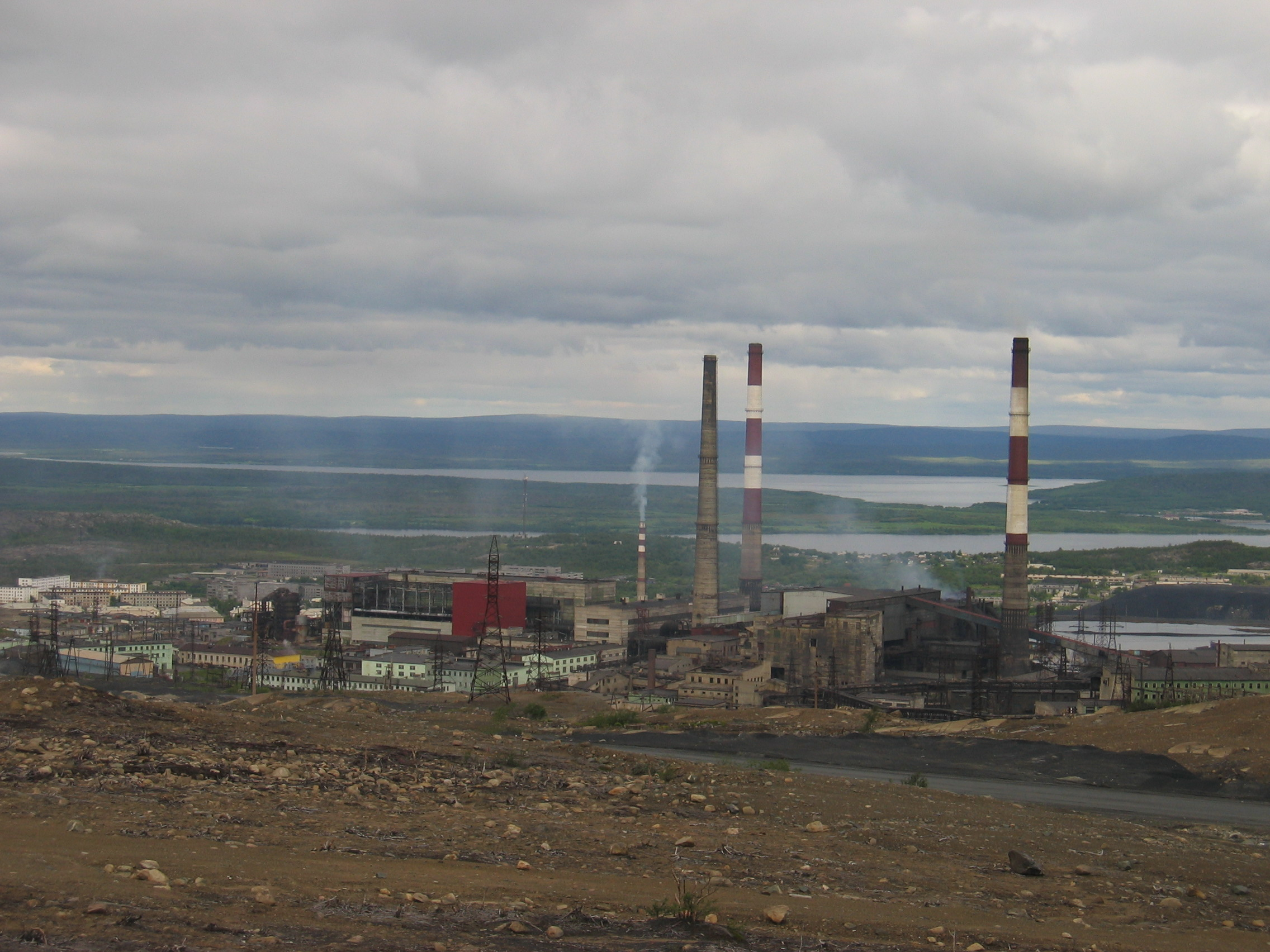 Tross et goldt landskap, blomstrer kulturen i Nikel, Russland Keywords: Energy, Climate, Environment, Russia